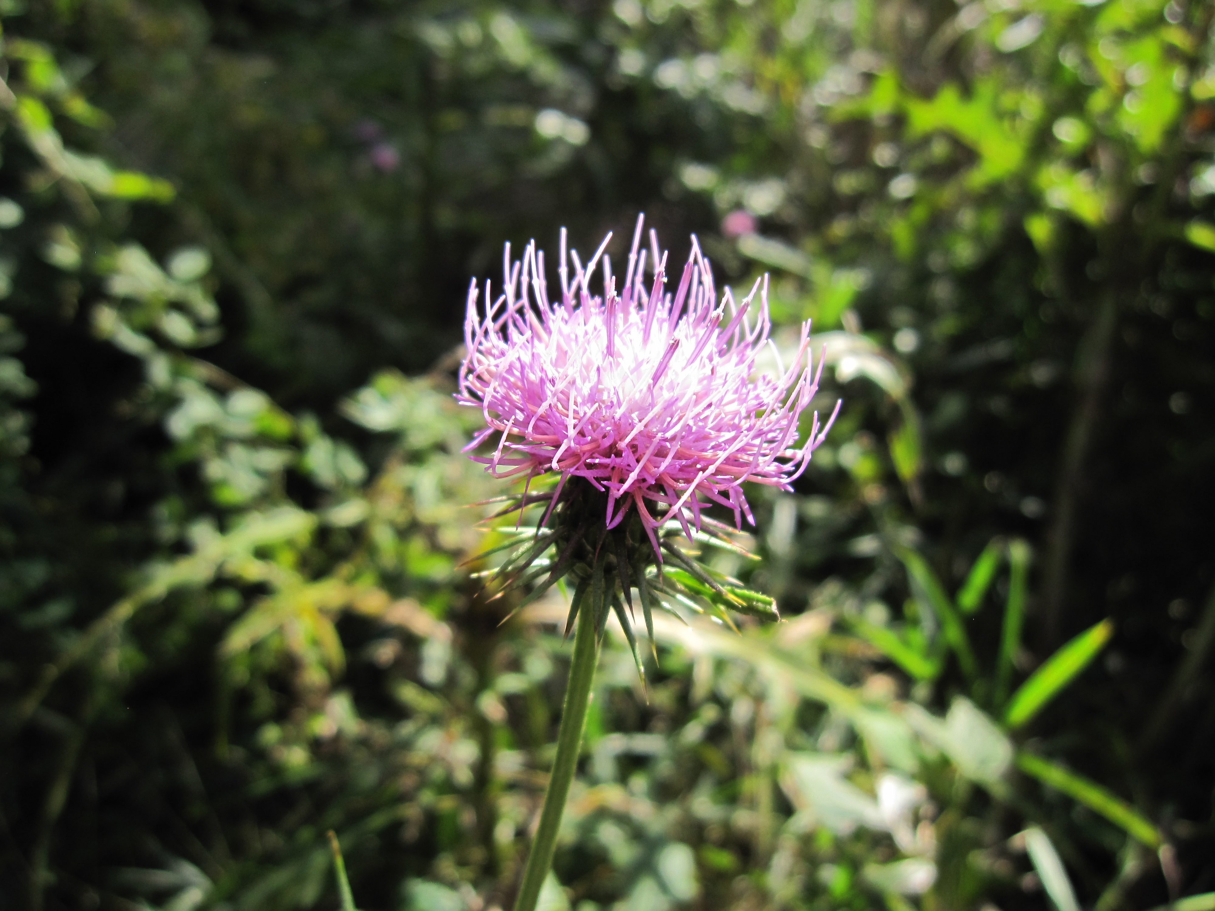 Cirsium nipponicum var. comosum. Photographed at Tsukuba Botanical Garden, October 2012.